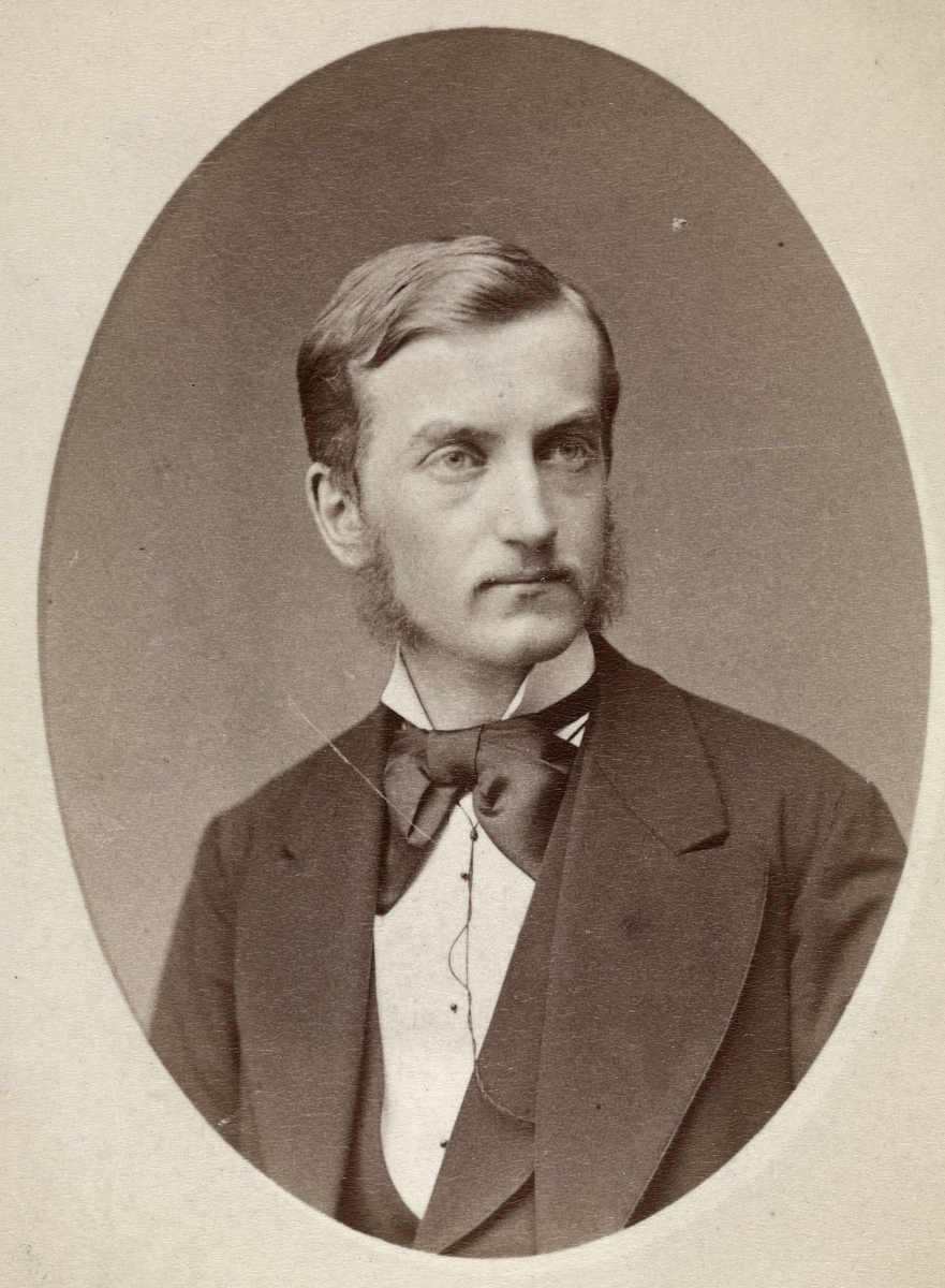 Norwegian publisher Halvard Aschehoug, who founded the Aschehoug publishing house in 1872